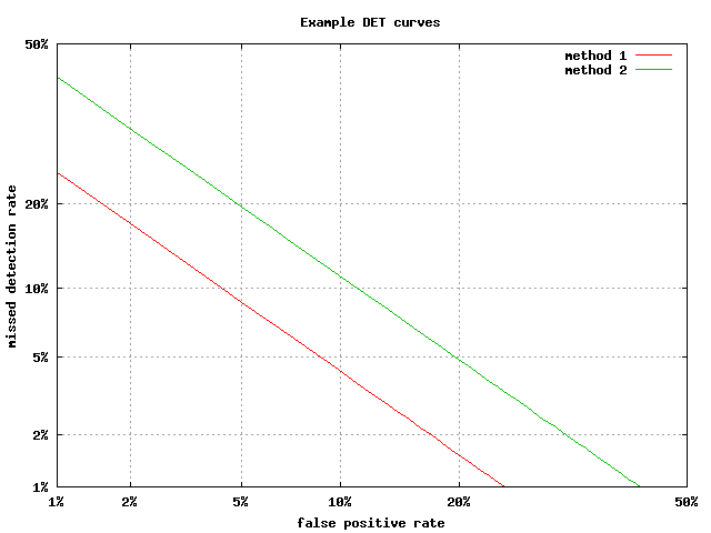 Example of Detection Error Tradeoff (DET) curves, which give the bulk of their area to the region of interest in comparing two algorithms (by contrast to Receiver Operating Characteristic (ROC) curves, where the region of interest is a very narrow region near the y-axis).